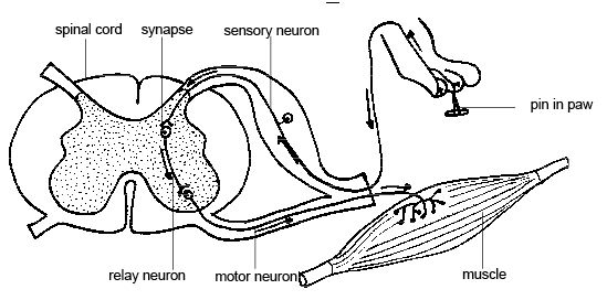 Anatomy and physiology of animals A reflex arc